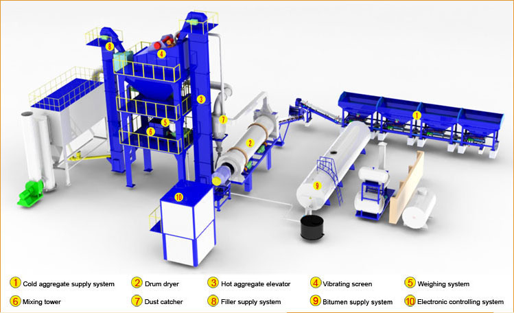 Basic Structure of DAYU-LB Series Batching Type Asphalt Plant